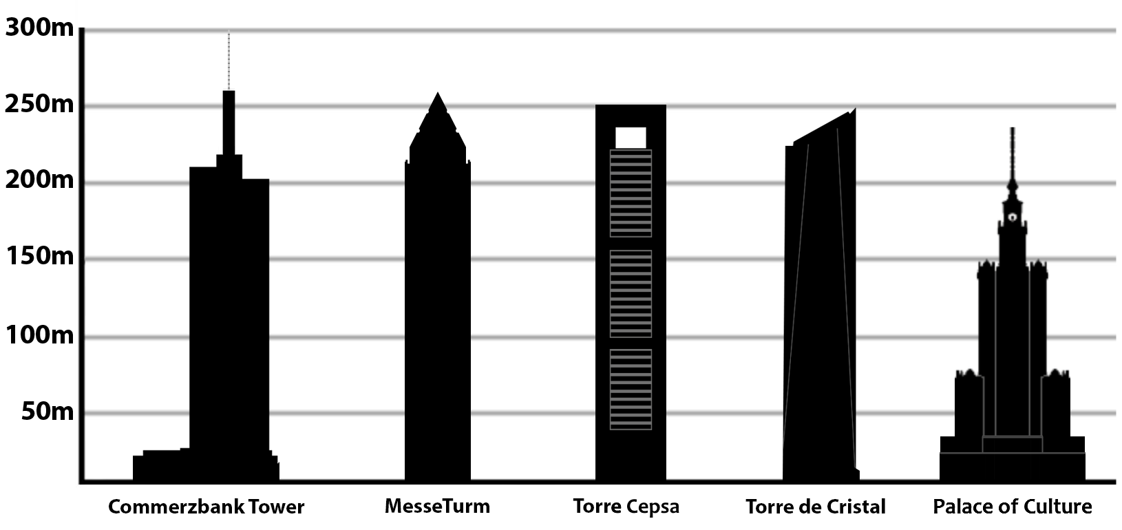 The tallest skyscrapers of the European Union post-Brexit, before Varso Tower got completed later in 2020. Author: LordParsifal